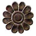 Relief of Lutos flower, or Goli mikhi in Persian - to commend other users for their efforts